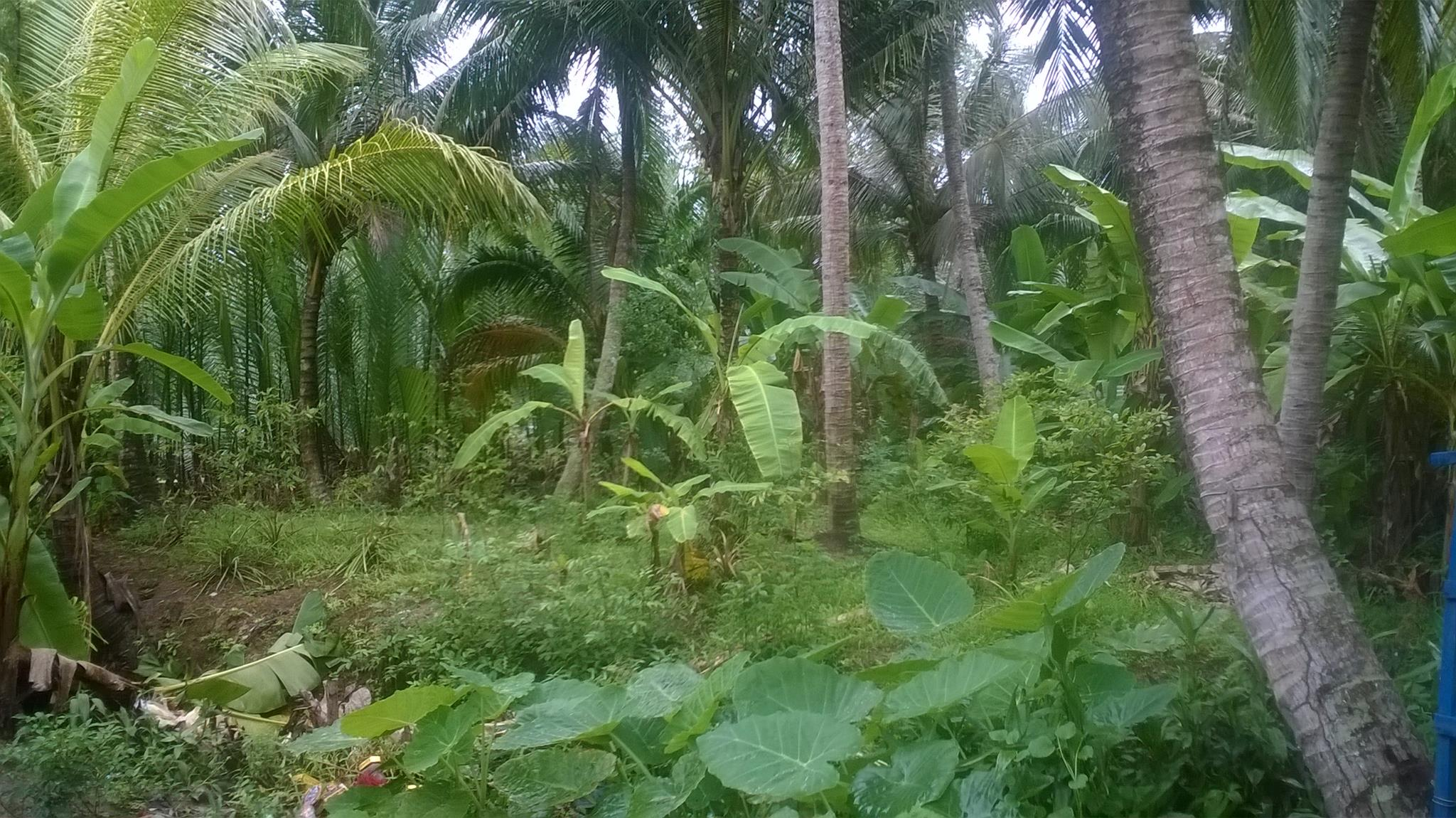 Coconut garden in Hung Nhuong Commune, Giong Trom District, Ben Tre Province